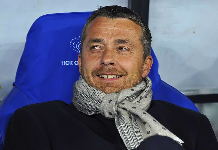 Slaviša Jokanović